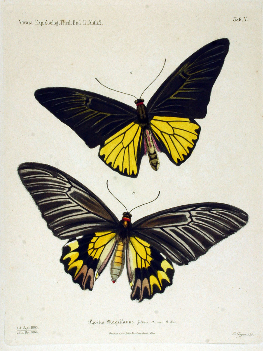 Reise der Österreichischen Fregatte Novara um die Erde in den Jahren 1857, 1858, 1859 unter den Befehlen des Commodore B. von Wüllerstorf-Urbair. (1864) Tafel V. Papilio magellanus Now Troides magellanus (C. & R. Felder, 1862)